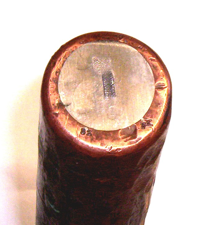 fixed anode from X-Ray tube